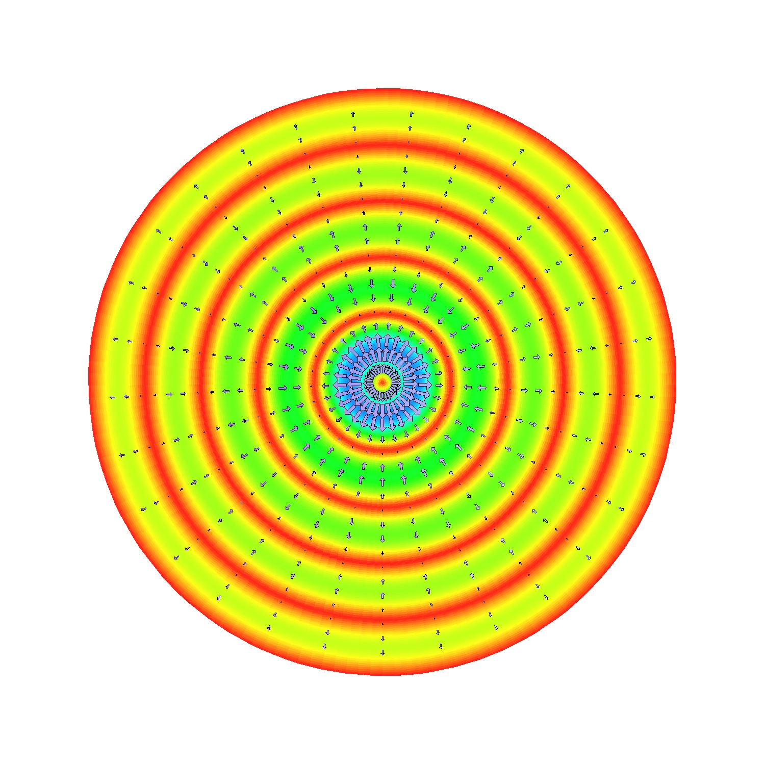 Plot of E and H fields on the TEnl mode defined by n and l.